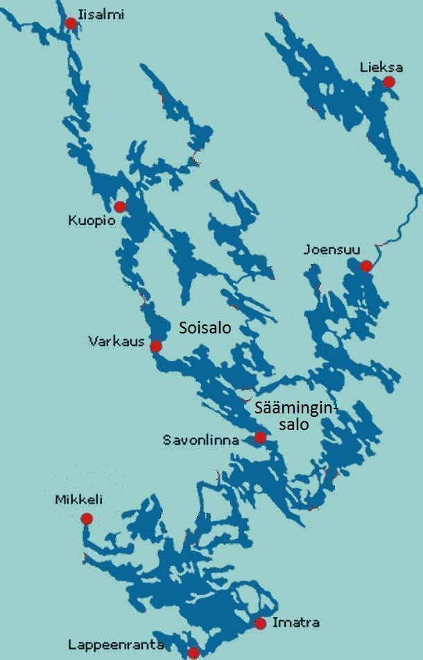 Saimaa Lake region.